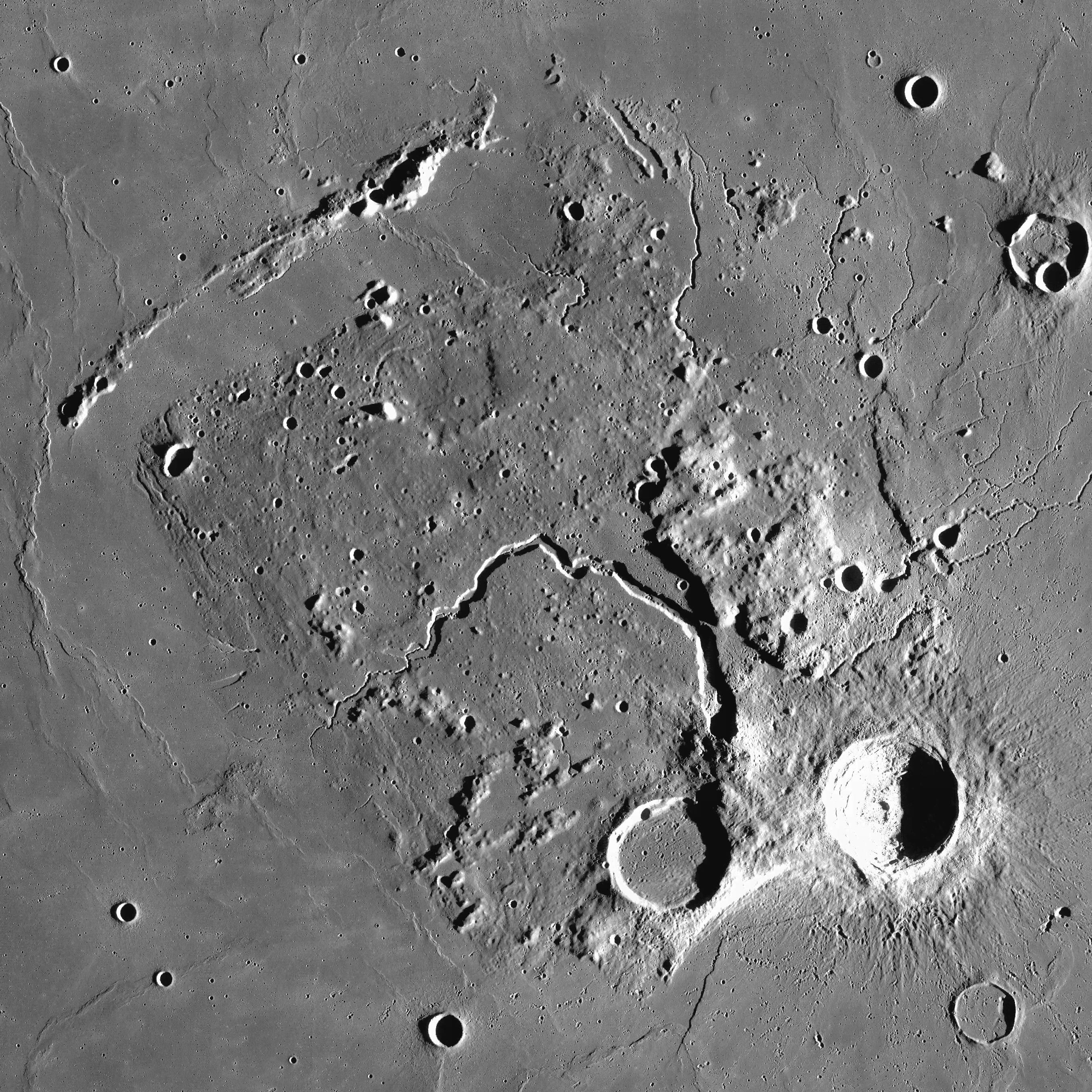 Aristarchus Plateau in Oceanus Procellarum on the Moon. A bright crater in bottom right is Aristarchus. Mosaic of photos by Lunar Reconnaissance Orbiter, made with Wide Angle Camera. Contrast is increased. Size of the image is 320×320 km, north is up.